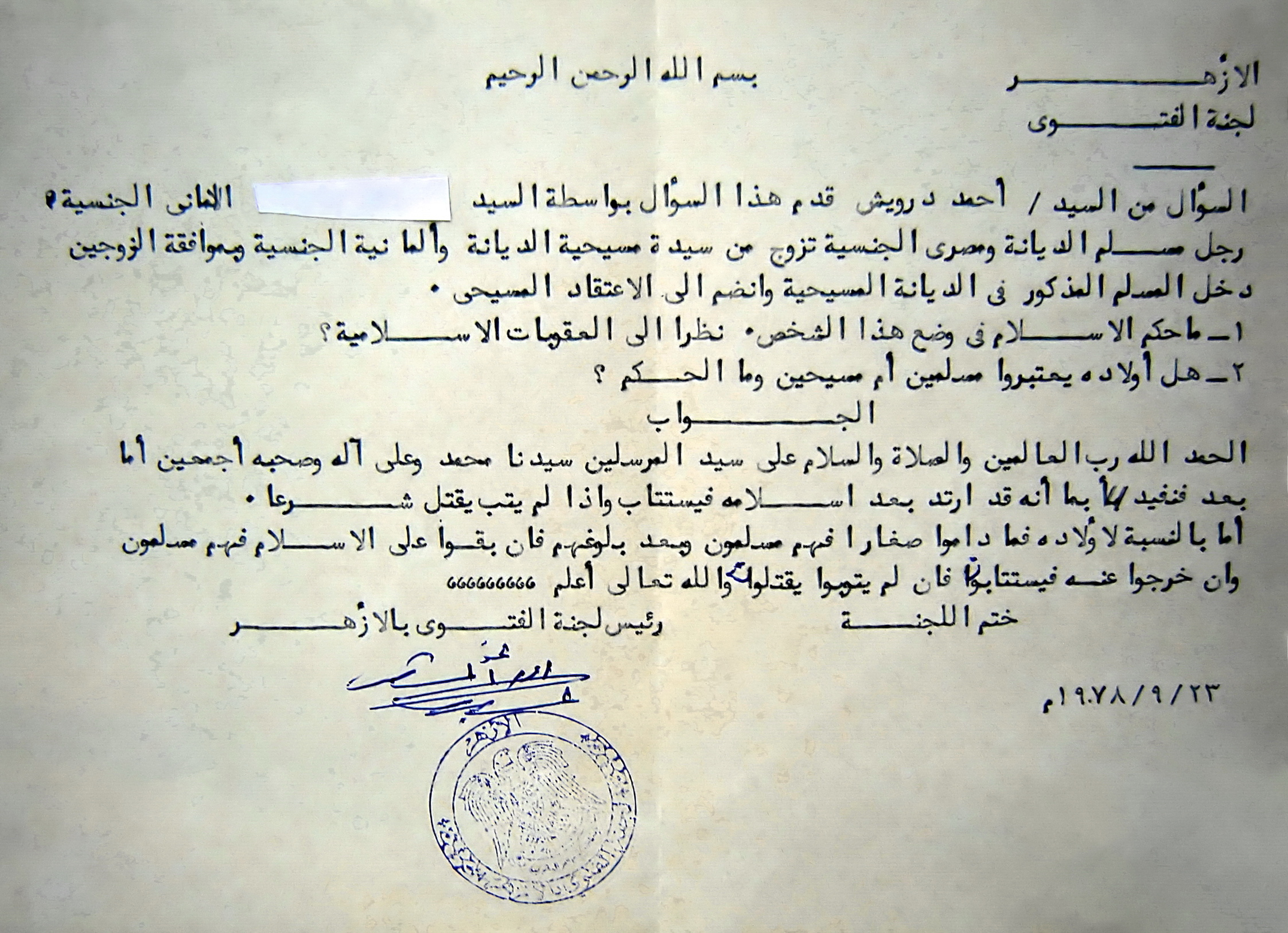 This Fatawa describes how an Egyptian man turned apostate and the subsequent punishment prescribed for him by the Al-Azhr Fatawa council. The following translation is a rough guide: Al-Azhar.Council of Fatawa. In the Name of Allah the Most Beneficient the Most Merciful. This question was presented by [name obscured] and it concerns Mr. Ahmed Darwish whose religion was Islam and his nationality is Egyptian. He married a German Christian and the couple agreed that the husband would join the Christian faith and doctrine. 1. What is the Islamic ruling in relation to this man? What are the punishments prescribed for this act? 2. Are his children considered Muslim or Christian? The Answer: All praise is to Allah, the Lord of the Universe and salutations on the leader of the righteous, our master Muhammed, his family and all of his companions. Thereafter: This man has committed apostasy; he must be given a chance to repent and if he does not then he must be killed according to Shariah. As far as his children are concerned, as long as they are children they are considered Muslim, but after they reach the age of puberty, then if they remain with Islam they are Muslim, but if they leave Islam and they do not repent they must be killed and Allah knows best. Date:23rd September 1978. Seal of Al-Azhar:Head of the Fatawa Council of Al-Azhar